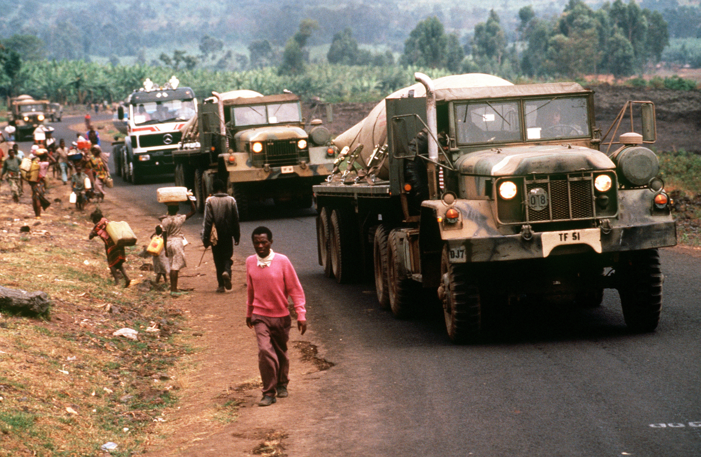 Members from the 501st Transportation Squadron, Kaiserslautern Germany, and C Company, 3rd Battalion, 325th Infantry Brigade (Airborne Combat Team, (ABCT)), Southern European Task Force (SETAF), Vicenza, Italy, and the Task Force 51, Mannheim Germany, bring a convoy of fresh water. The water was made by eight chlorinators and two reverse osmosis machines in Goma for Rwandan refugees located at Camp Kimbumba, Zaire. Photographer's Name: TSgt. Marv Krause, VIRIN: J-3003-SPT-94-04-0004-0683